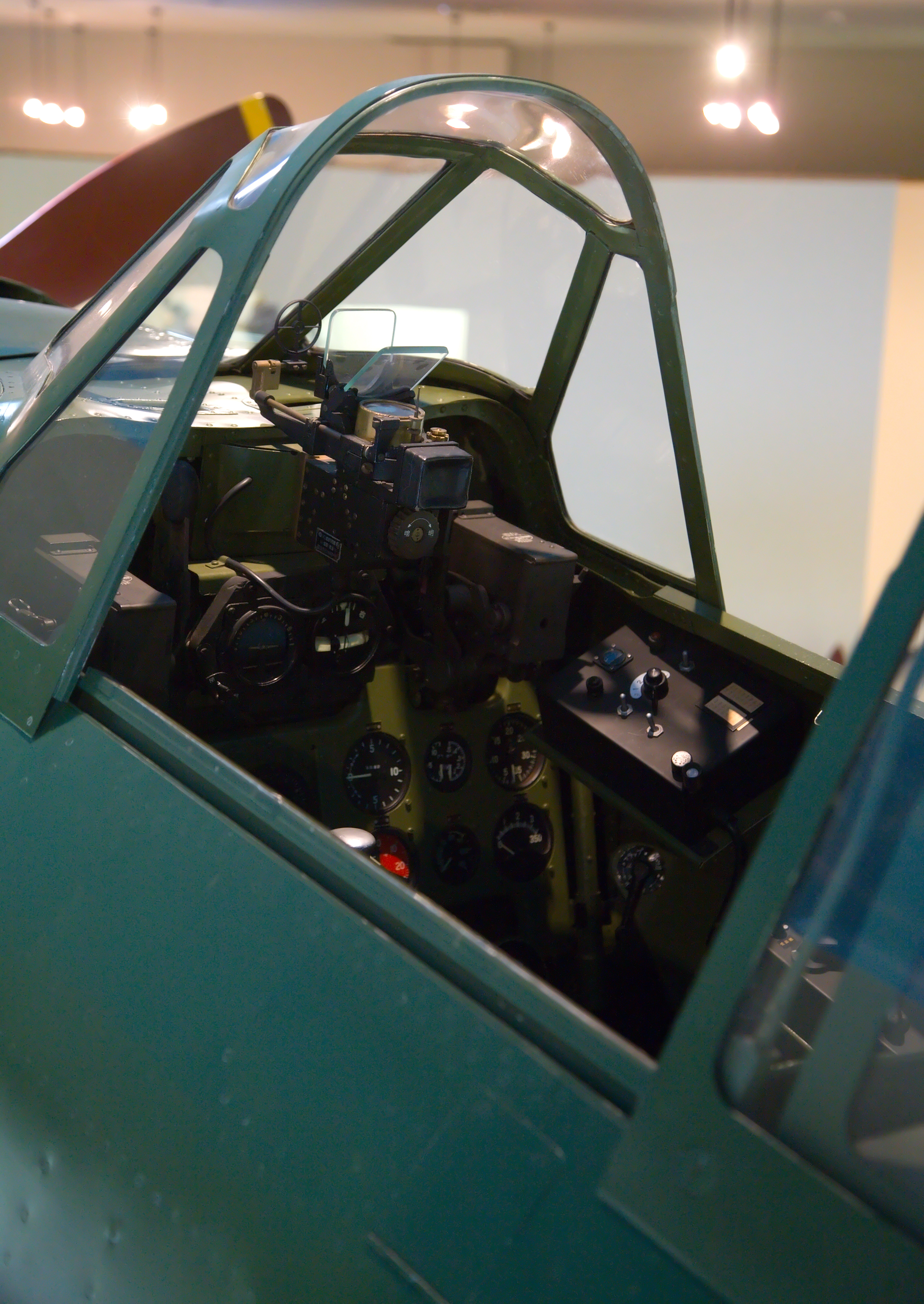 The cockpit of a A6M5 Zero Model 52 at Kanoya Museum, Japan.